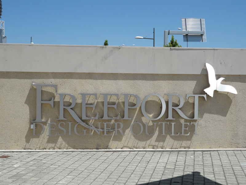 Sign on the Freeport Outlet Alcochete